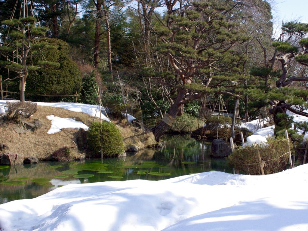 Sakai-shi teien, an old private garden of Sakai clan of Shōnai, being preserved in Chidō Museum, Tsuruoka.